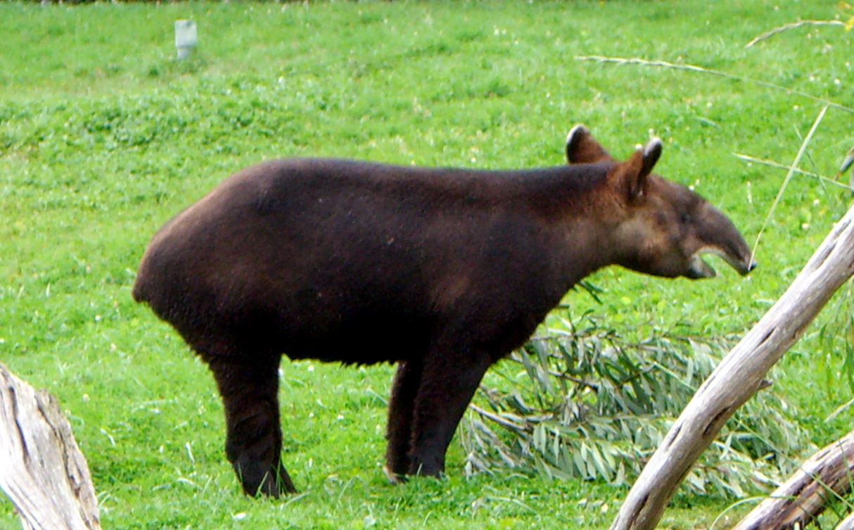 A mountain tapir Tapirus pinchaque at the San Francisco Zoo. This photo was taken by Elissa Berver.